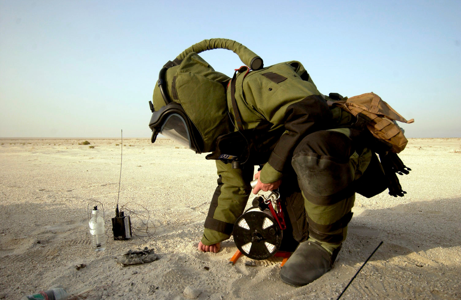 Bahrain (May 10, 2005) - Hull Maintenance Technician 2nd Class Carl Harris inspects the remaining high explosive material from a disrupted improvised explosive device during a training exercise in Bahrain. Members of Explosive Ordnance Disposal Mobile Unit Four (EODMU-4), Detachment Twelve, are conducting a Final Evaluation Phase of training to simulate operations the team may experience while supporting maritime security operations (MSO). MSO deny international terrorists use of the maritime environment as a venue for attack or to transport personnel, weapons, or other material. U.S. Navy photo by Photographer's Mate 1st Class Aaron Ansarov (RELEASED)